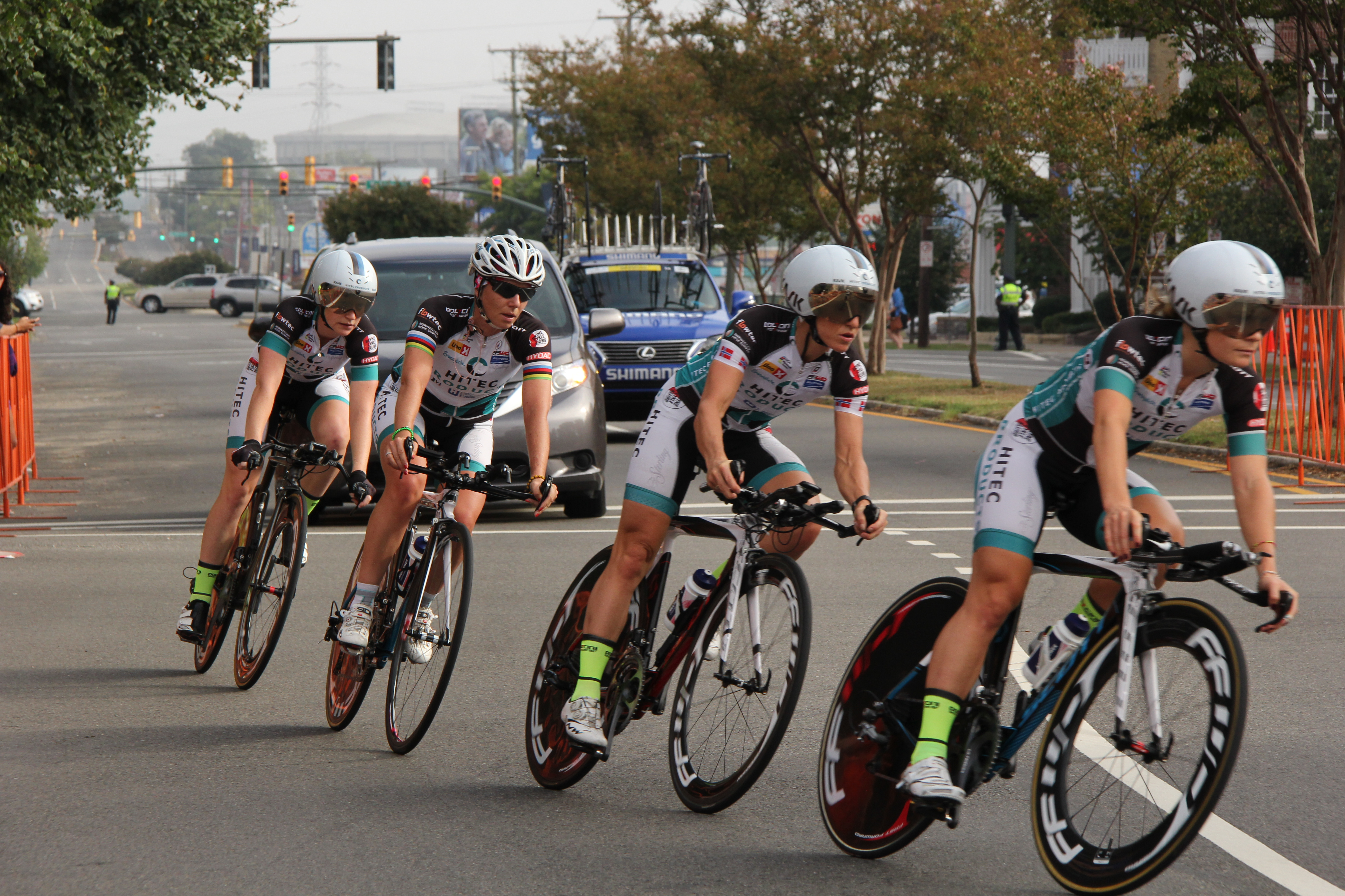 The world has come to Richmond. Welcome! Bienvenidos! Willkommen! 2015 UCI Road World Championships, in Richmond, United States